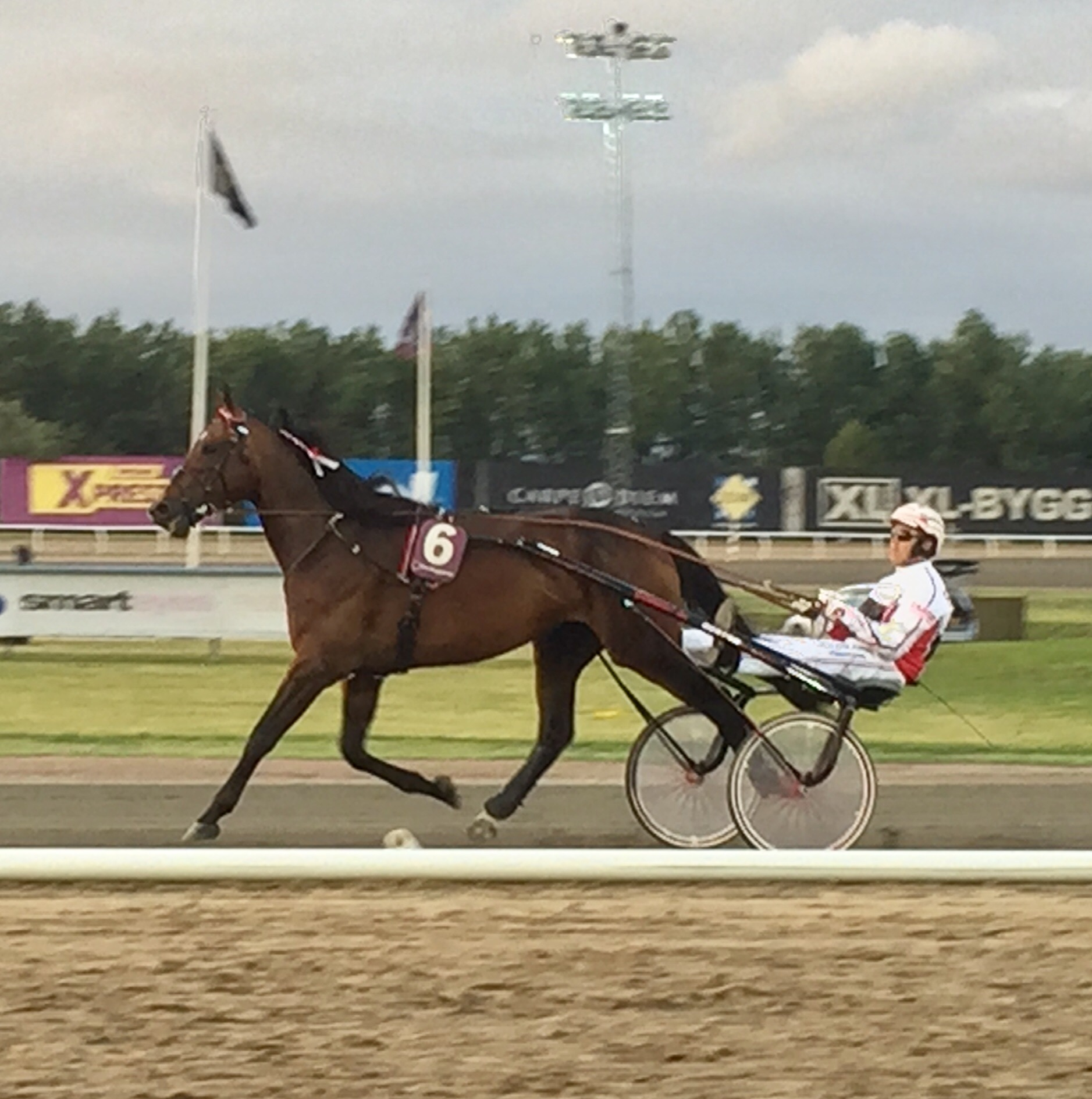 Robert Bi at European Championship for 5 years 2015 at Jägersro, Sweden. 2015-07-28.